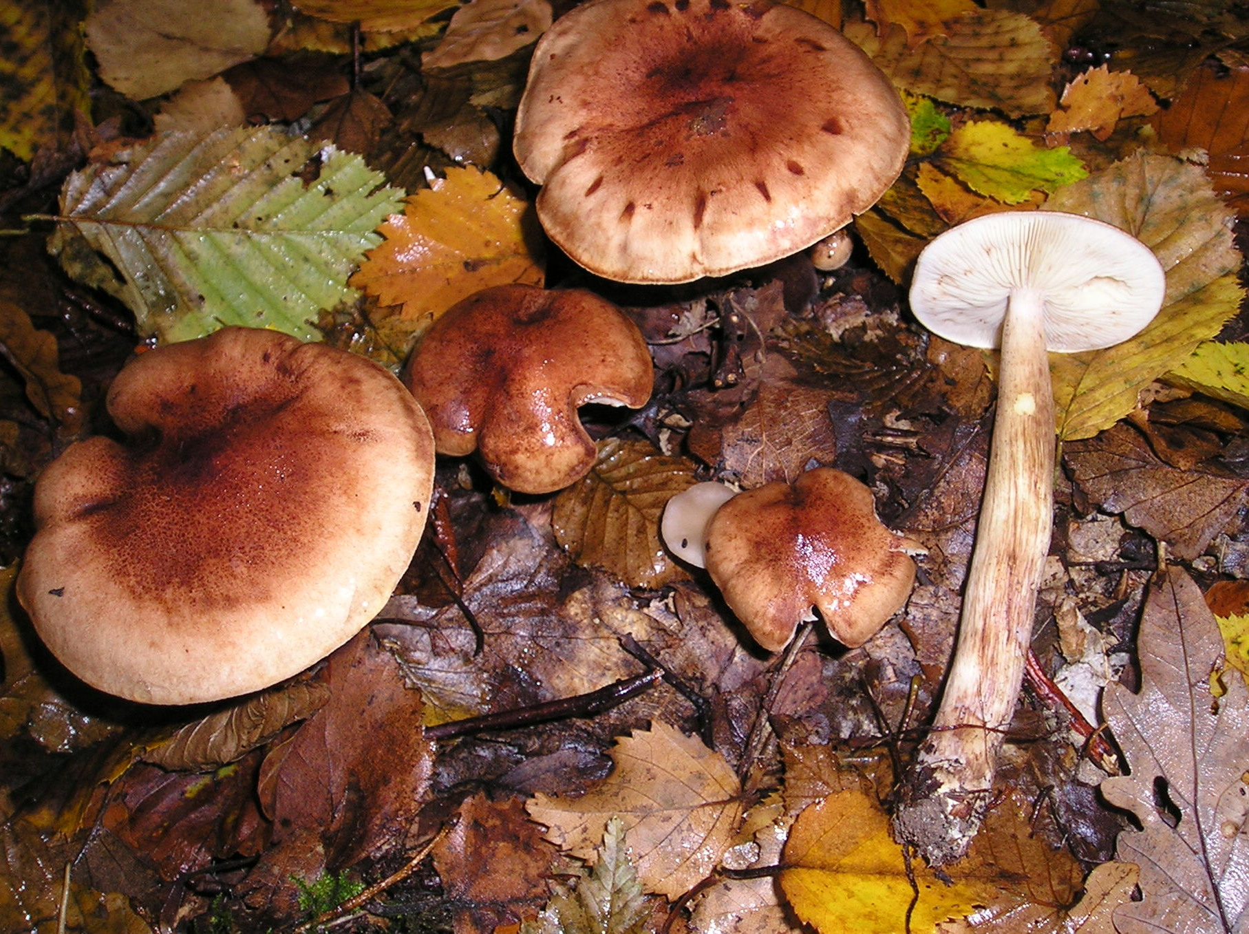 Tricholoma fulvum in a French wood.